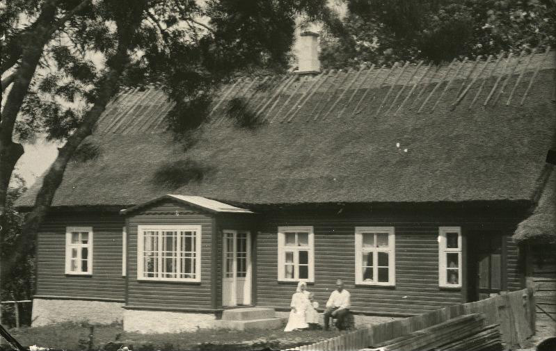 Farmer's house in Mui village, Saaremaa, Estonia. Year 1920